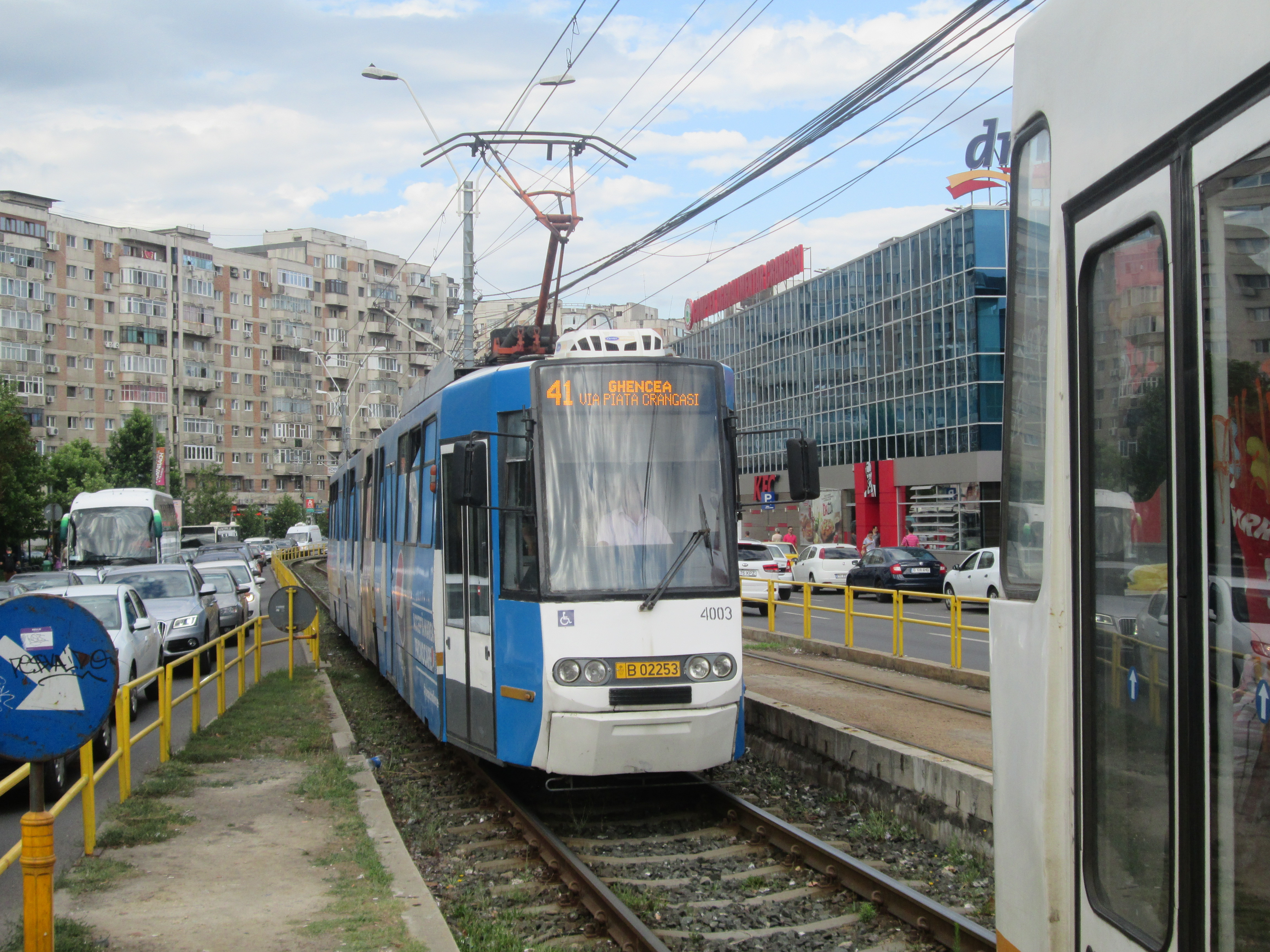 Tram number 226 (type V3A) on line 41 at Crangasi